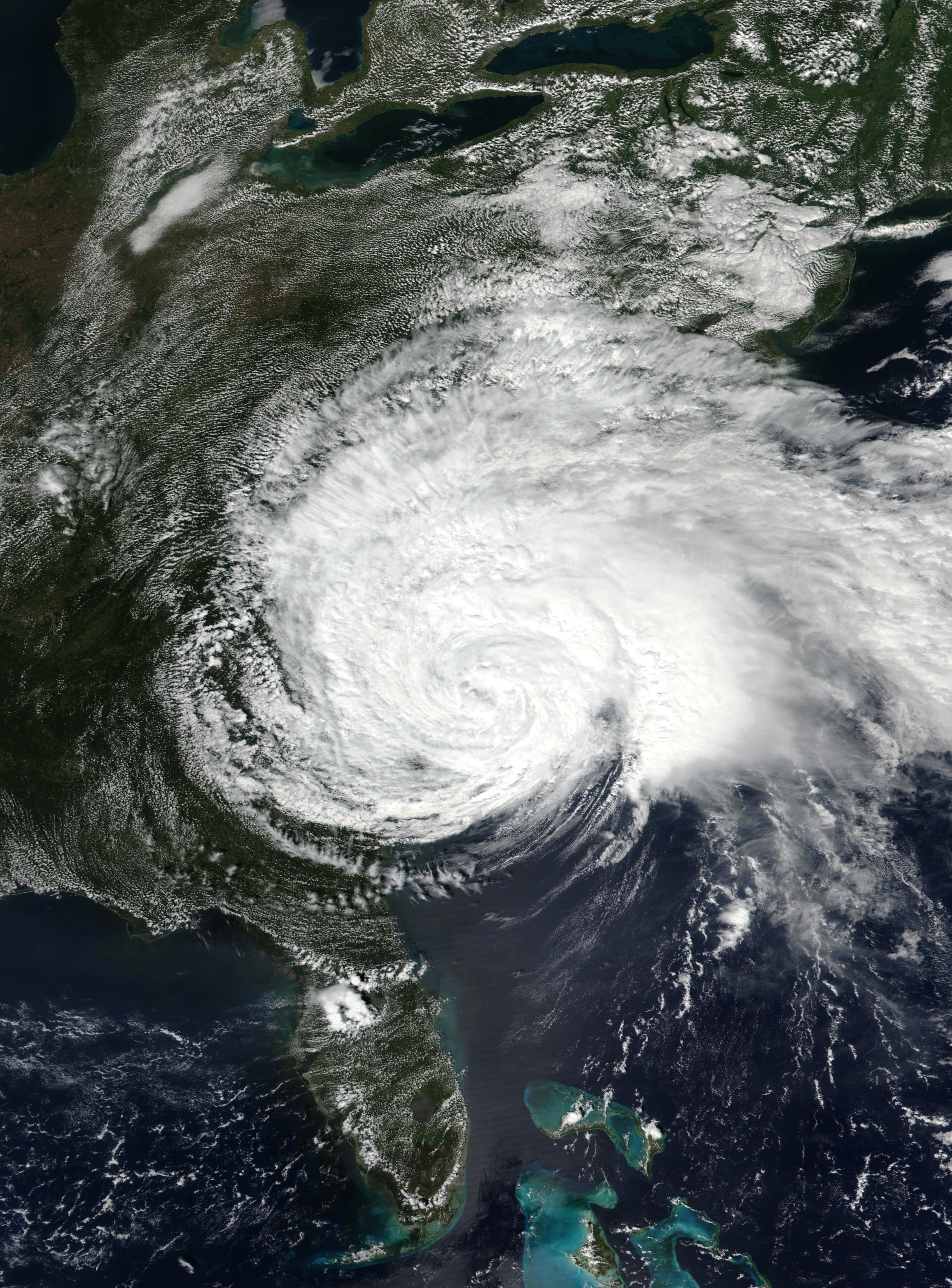 Tropical Storm Florence on September 15, 2018